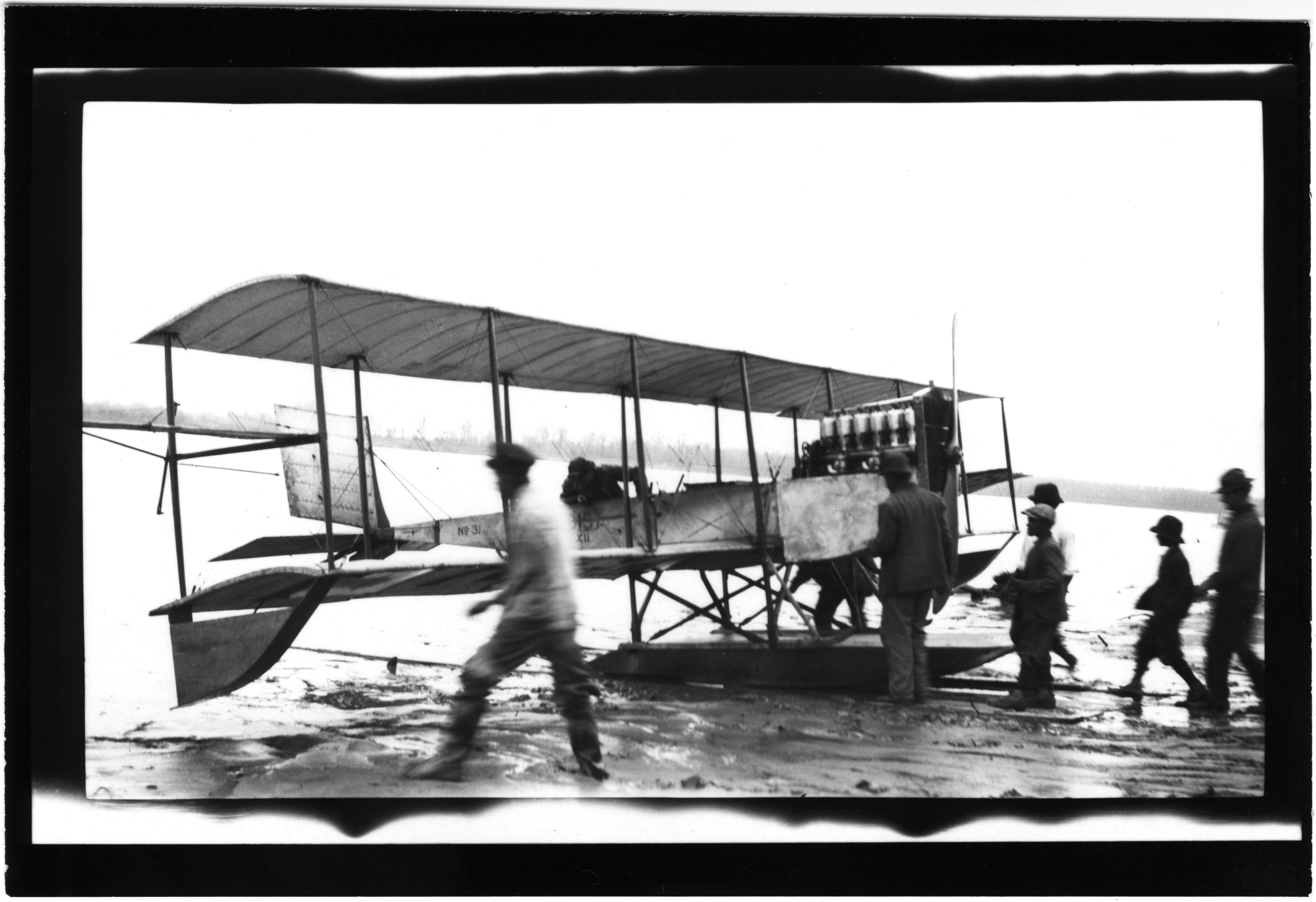 Collection: Painter (Milton McFarland, Sr.) Collection Call number: PI/1988.0006 System ID: 98639 Flying Machine. Please see our profile page for information on ordering. Scanned as tiff in 2008/05/02 by MDAH. Credit: Courtesy of the Mississippi Department of Archives and History